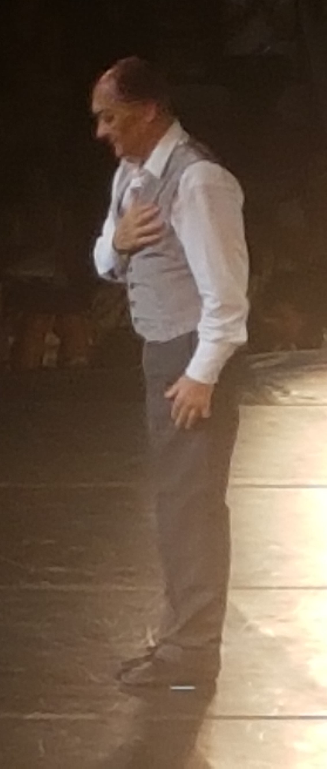 Mikhail Lavrovsky 2017 at Herodeion